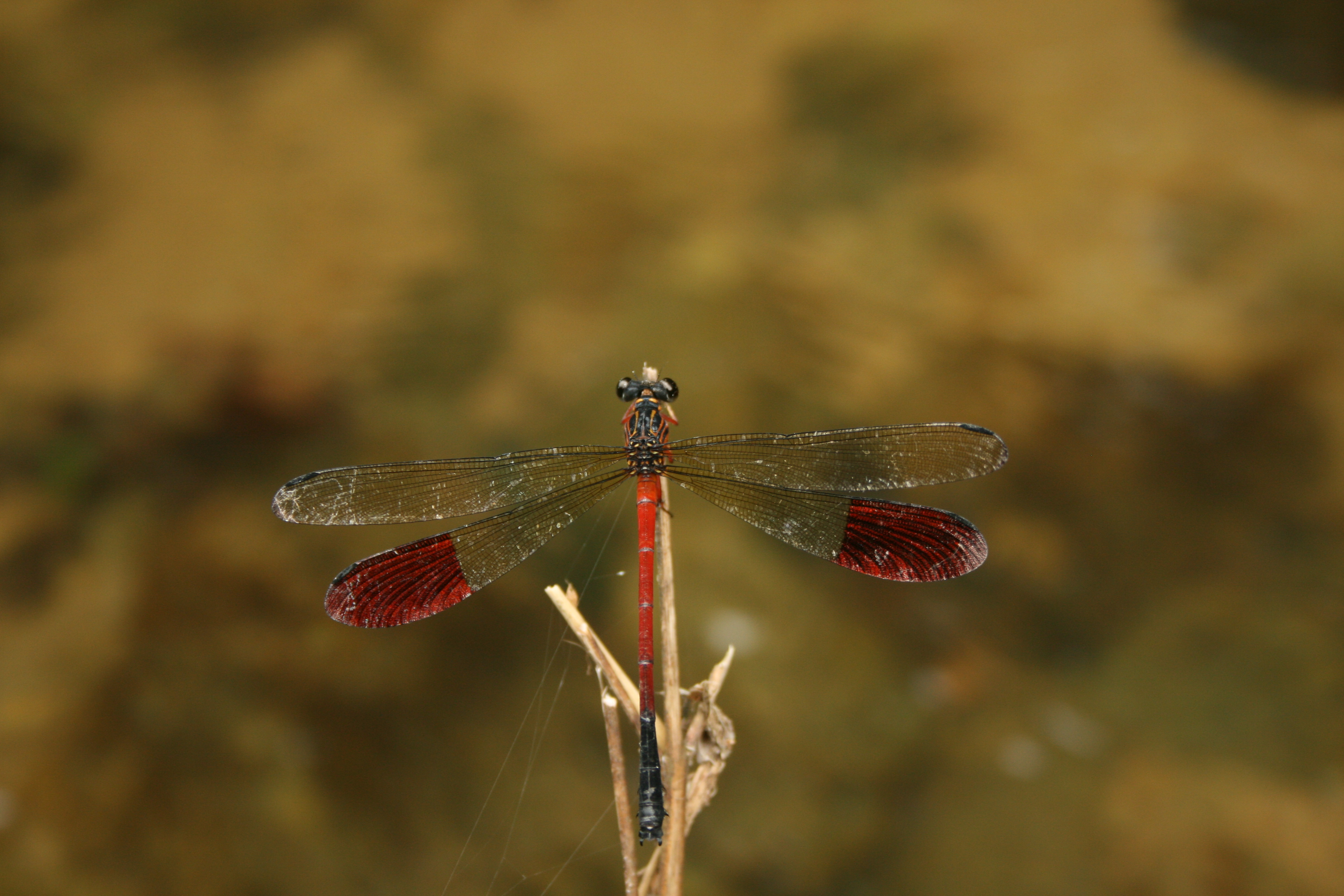 Euphaea cardinalis male, Valparai